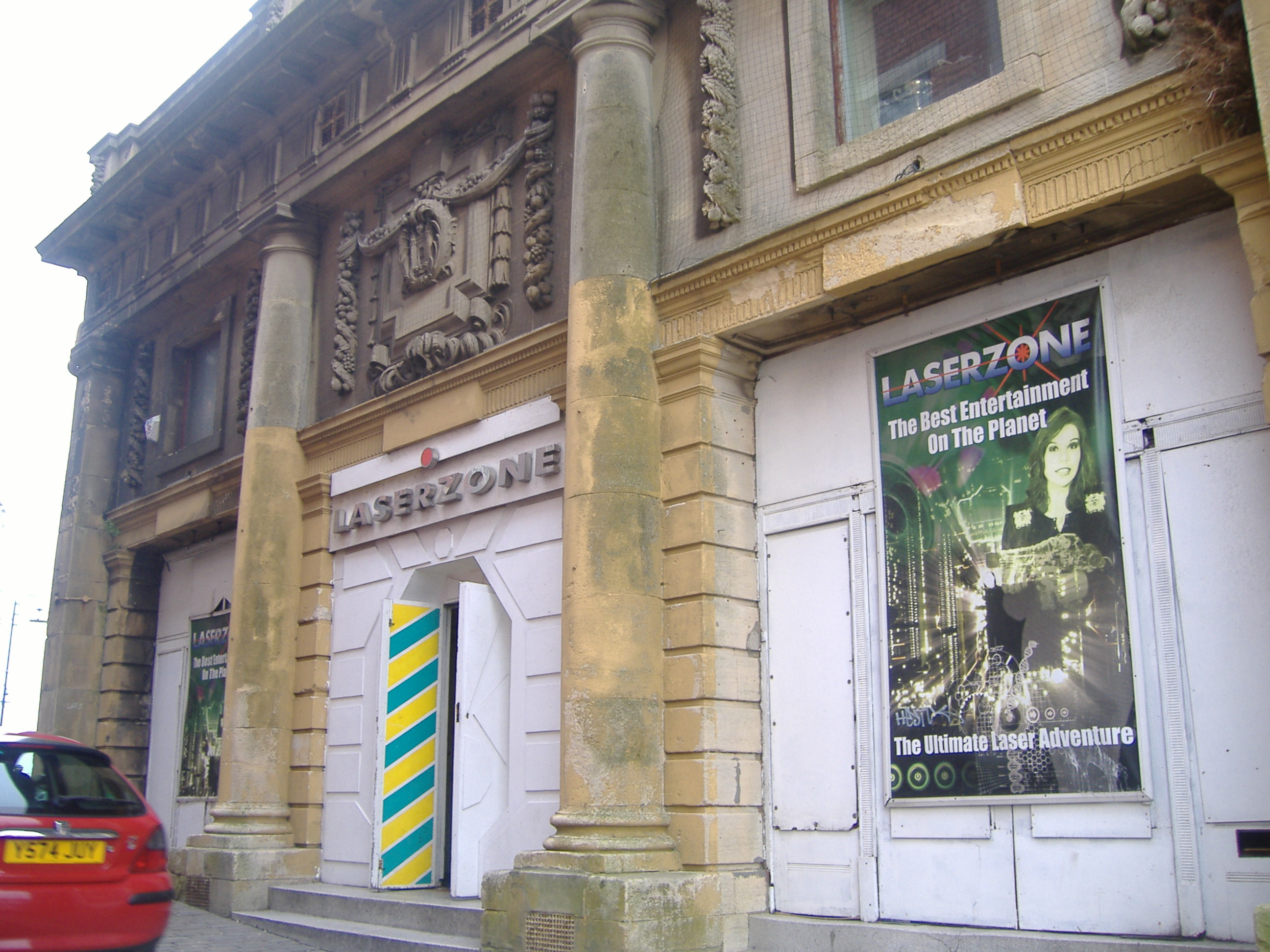 A photograph of the Castle Cinema in Swansea, Wales.